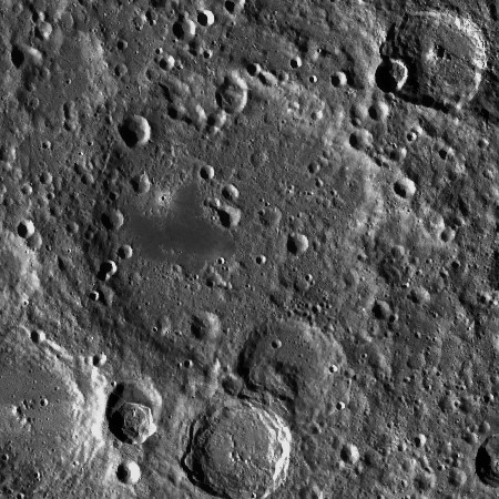 Accompanying Campbell in the image are Slipher at top right corner, Wiener at bottom left and Von Neumann at bottom center.